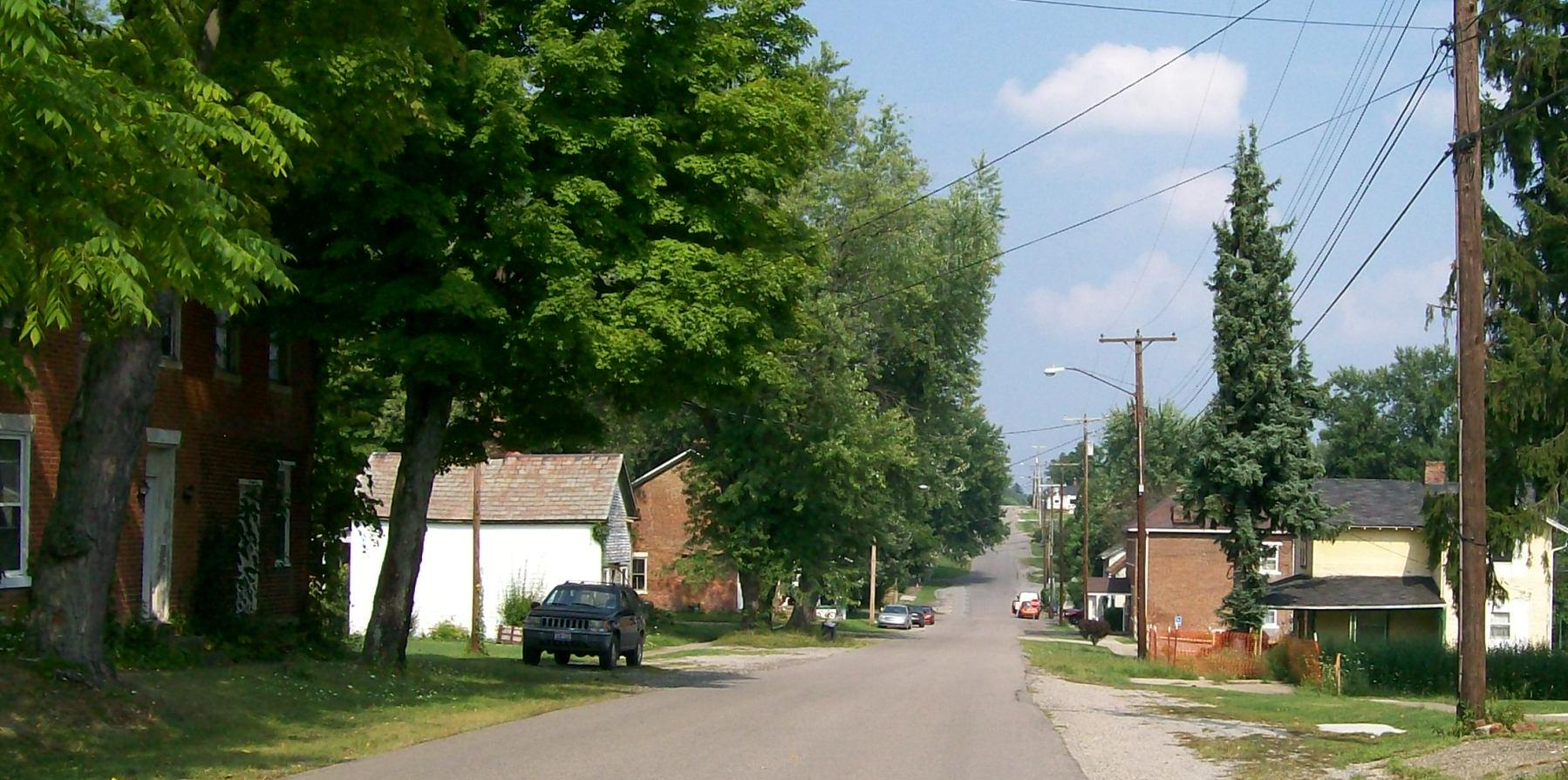 Main Street in Morristown, Ohio-part of the Morristown Historic District